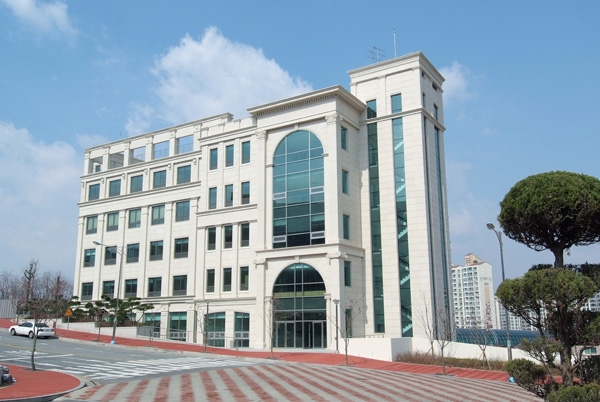 The Building of Alumni Welfare from Dankook University(Jukjeon)